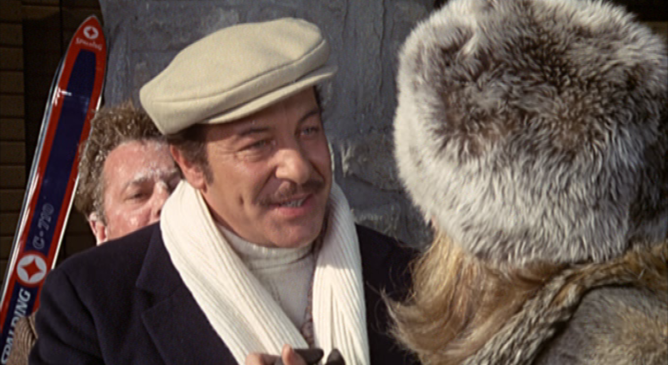 screenshot from the film Fantozzi (1975)